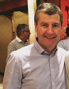 Personal picture of mine when I met Denis Irwin on February 17, 2016